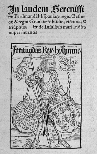 Image from the Basel 1494 edition of Columbus' Letter announcing the Discovery.